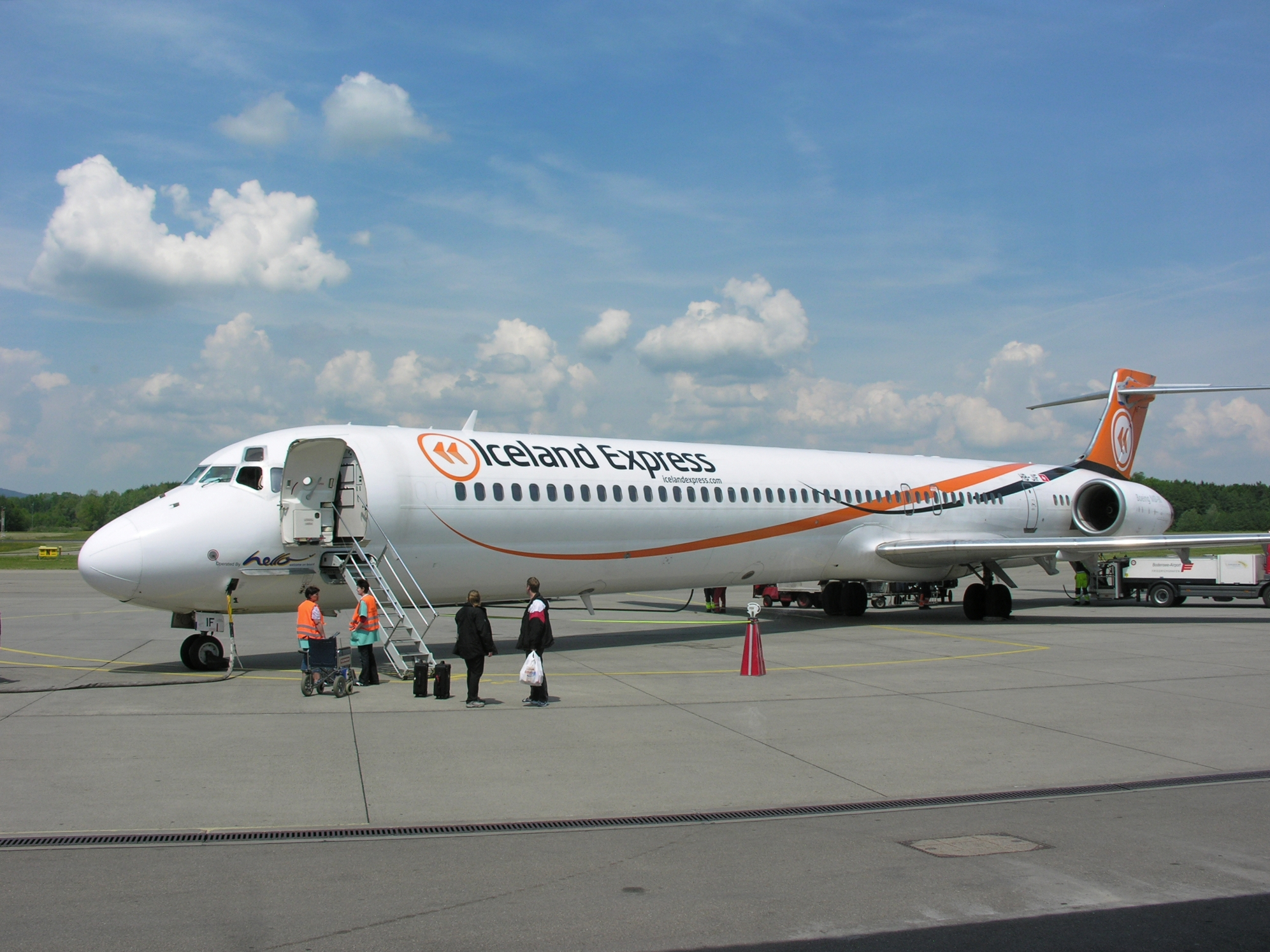 Germany, Hello's HB-JIF Boeing MD 90 in Iceland Express livery at Friedrichshafen airport